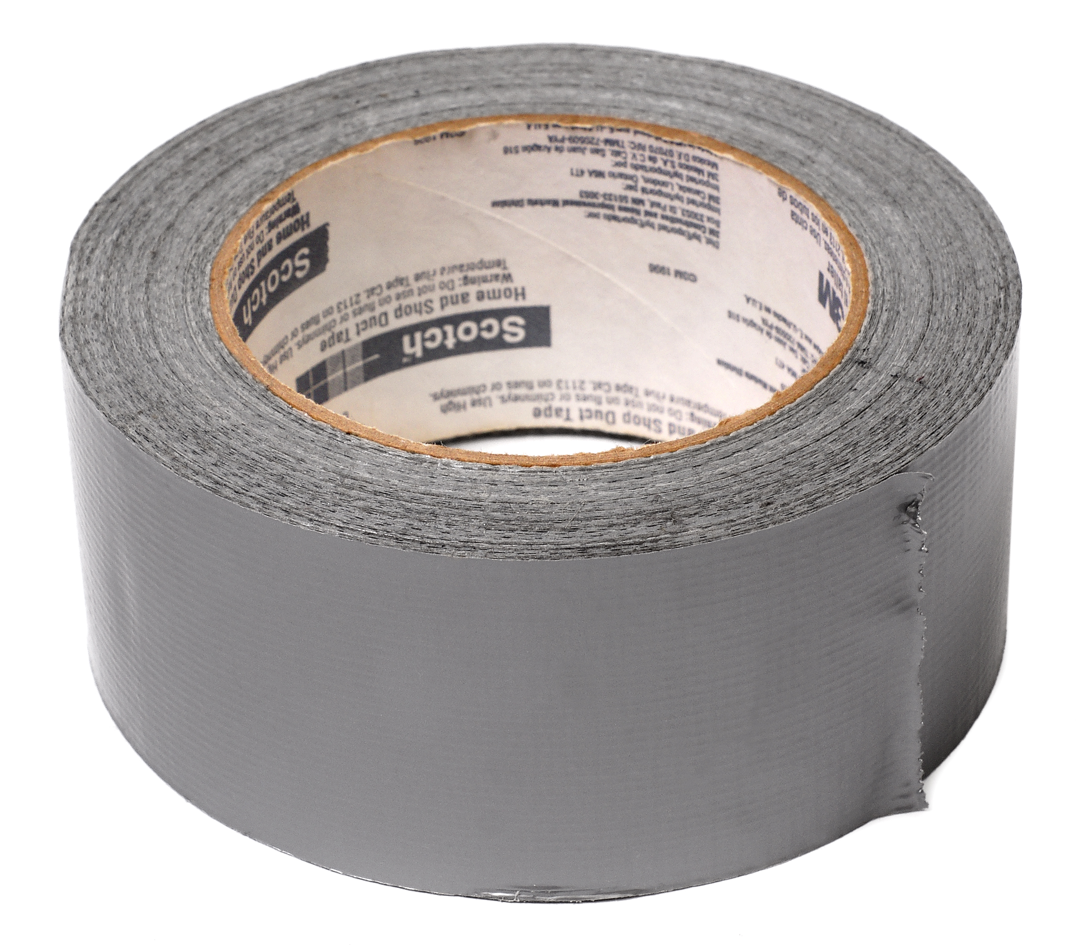 A roll of silver, Scotch brand duct tape.